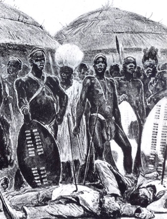 Dingane got up and yelled "Bulalani abathakathi" ("kill the magicians") and the warrior immediately killed the Boer representatives. In reality they were killed outside the royal kraal on the execution rock called Matiwane.